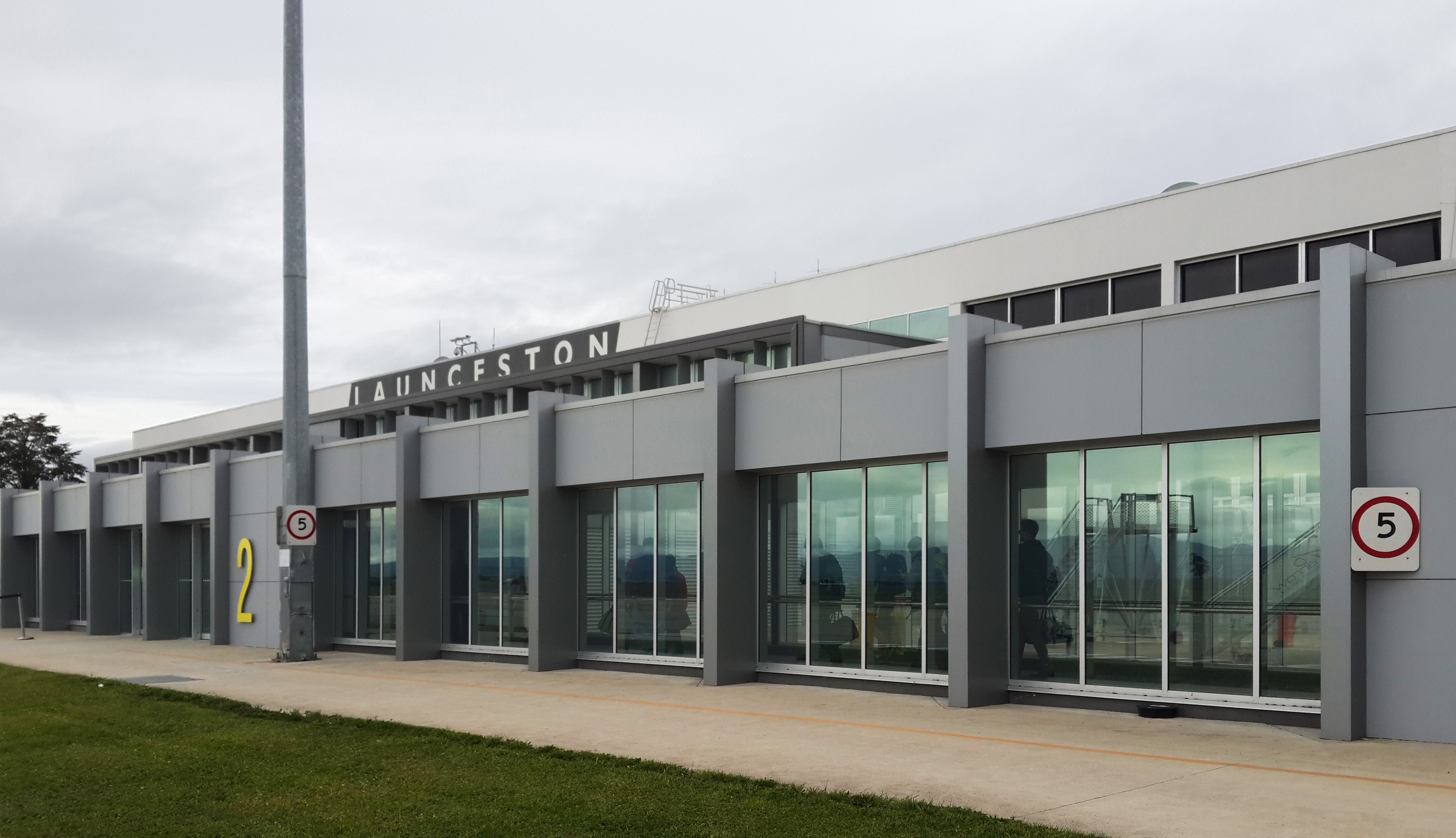 Launceston Airport Terminal